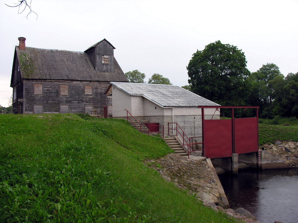 Gudai hydro power plant